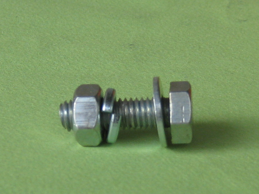 Bolt screw with washer, spring lock washer and nut